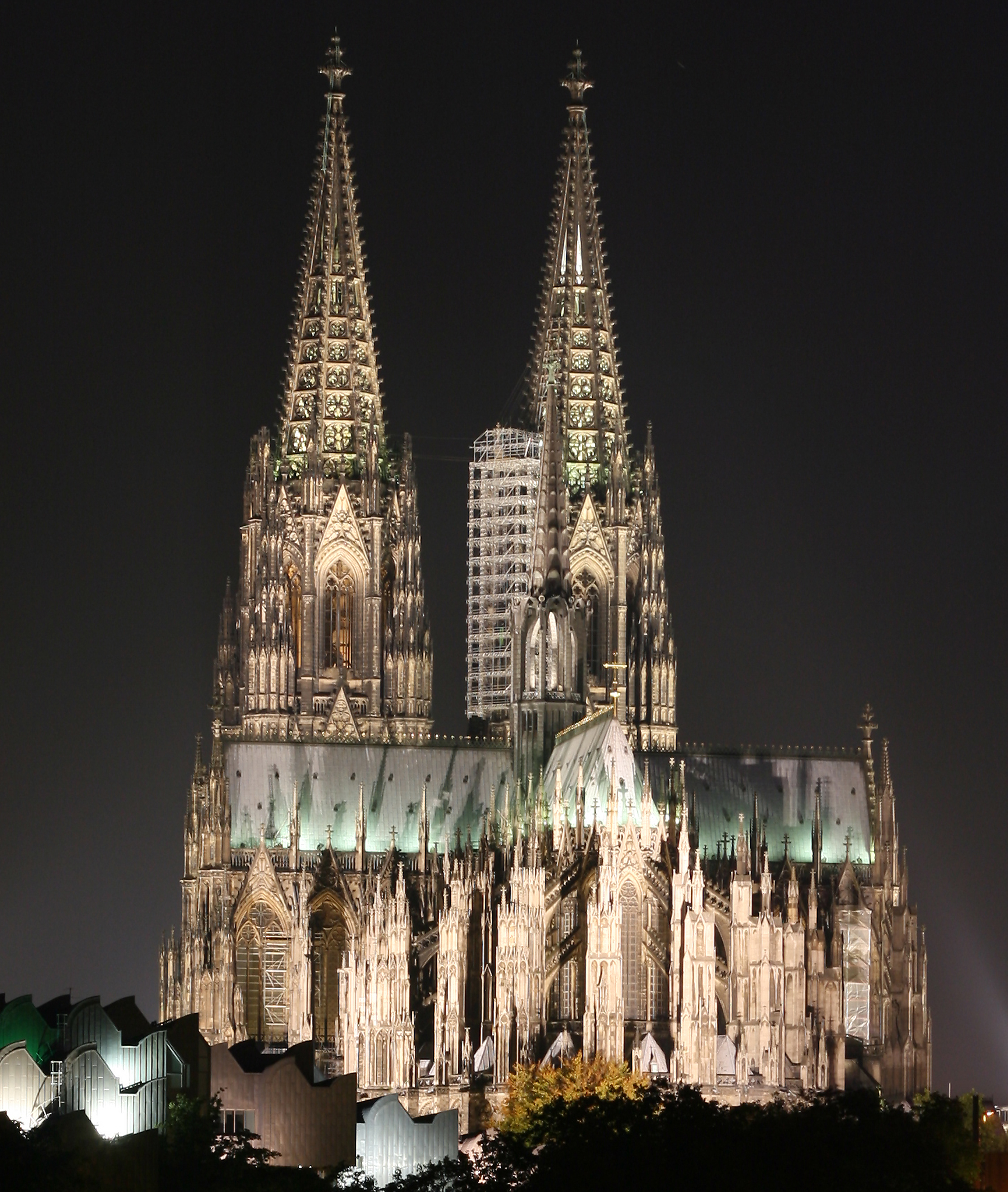 Cologne Cathedral at night, with the Rhine in the foreground